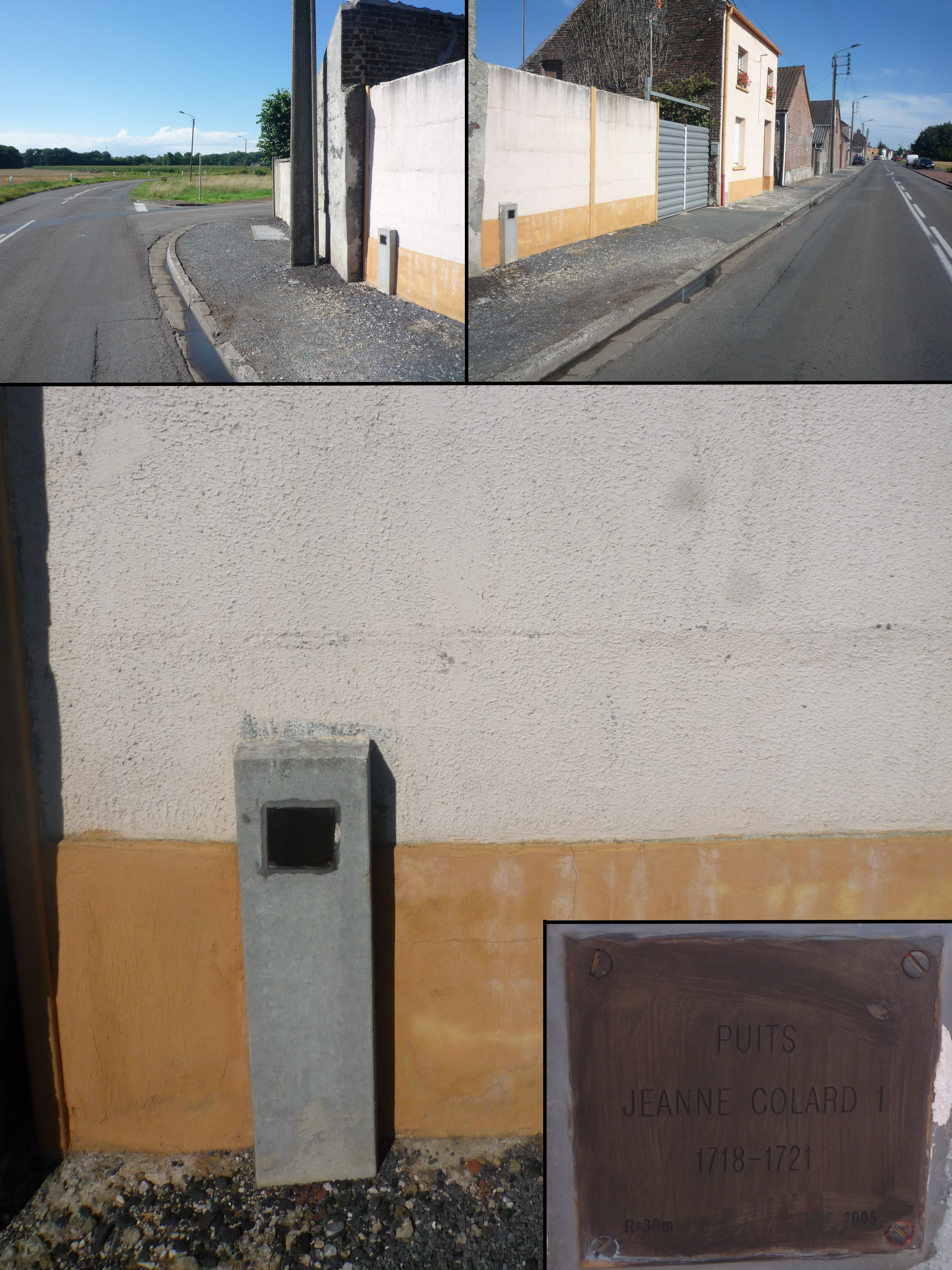 Pit Jeanne Colard n° 1 at Fresnes-sur-Escaut, Nord, Nord-Pas-de-Calais, France